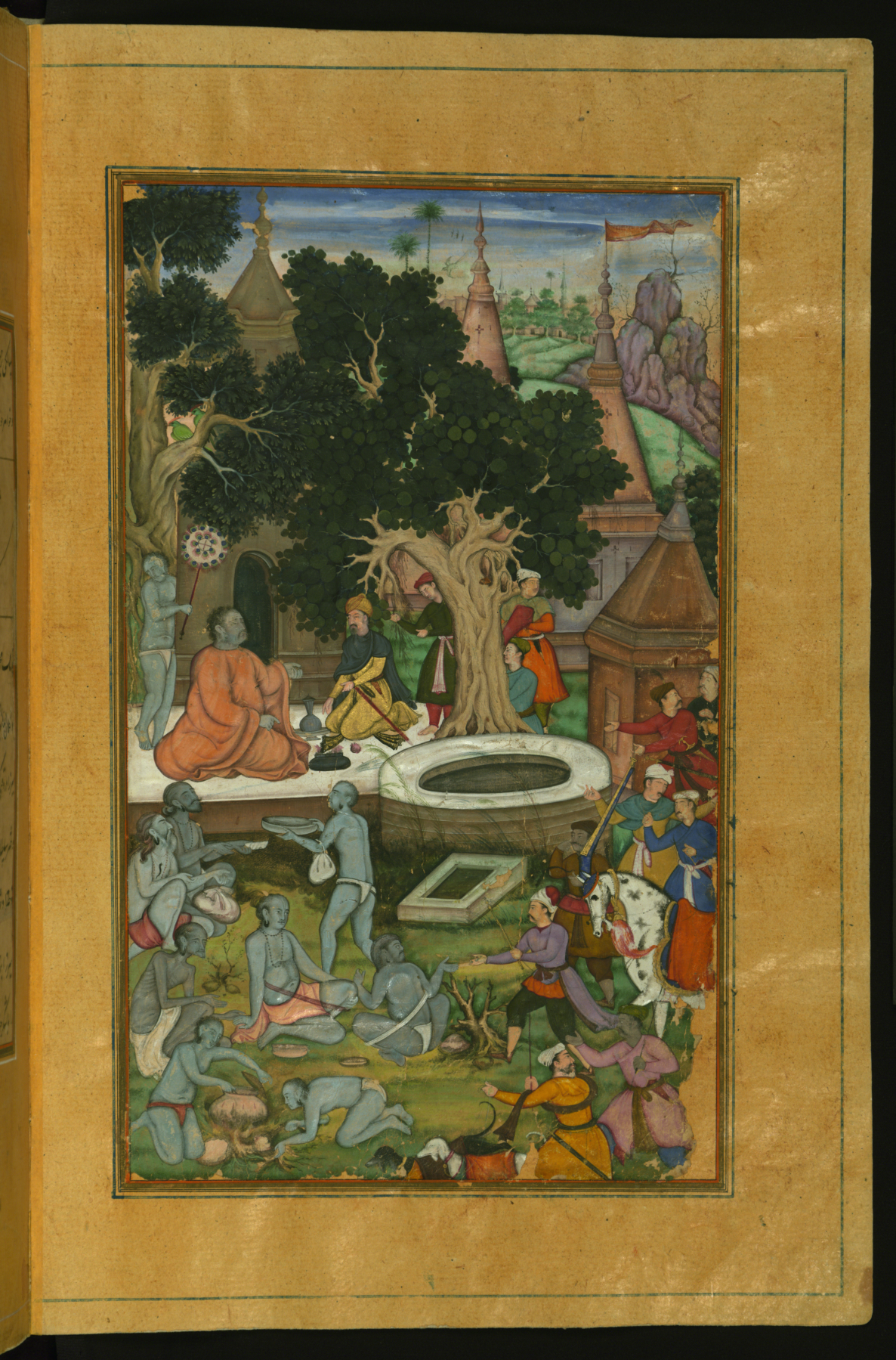 In this folio from Walters manuscript W.596, Babur and his warriors are depicted visiting the Hindu temple Gurh Kattri (Kur Katri) in Bigram.